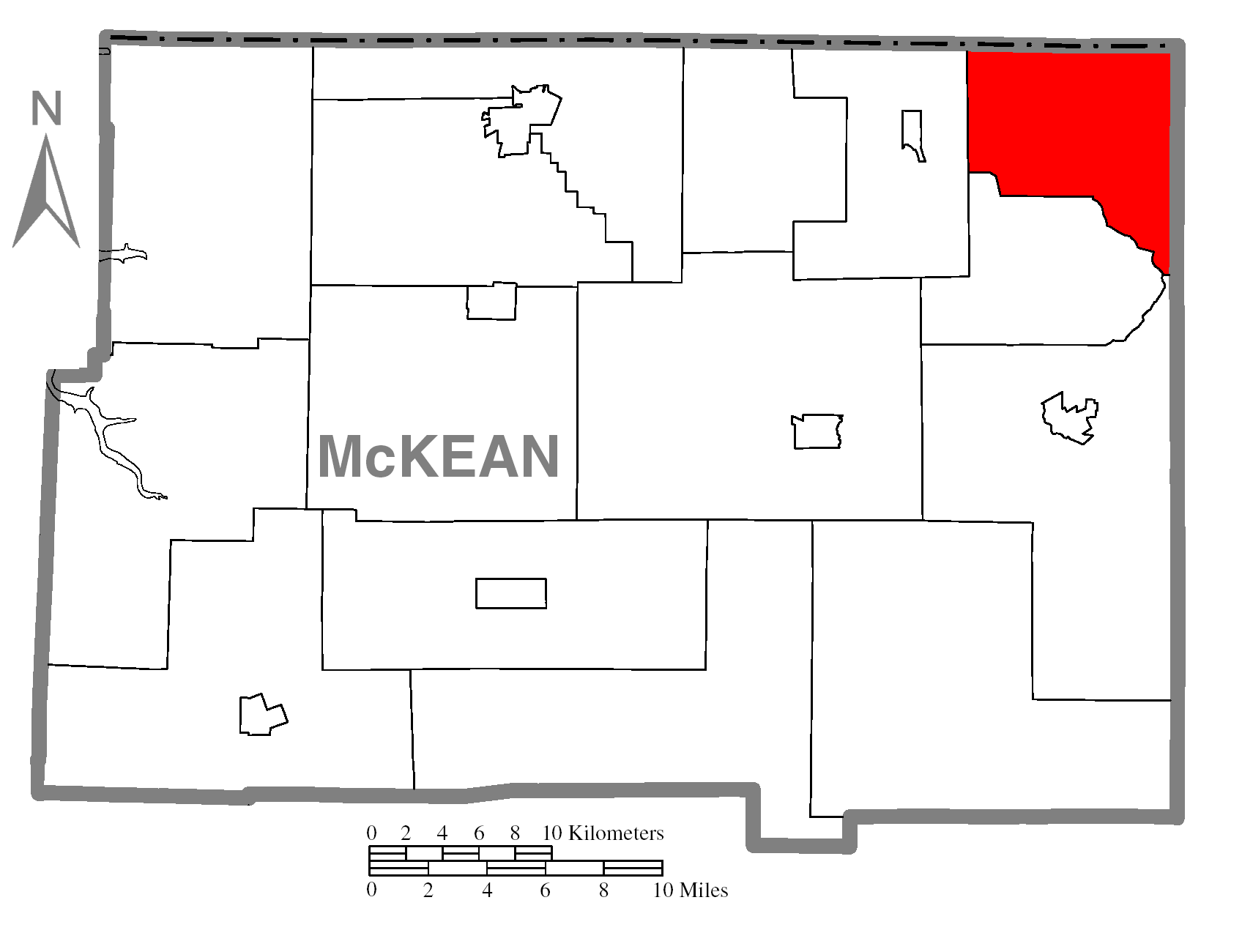 A map of McKean County showing Ceres Township, Pennsylvania (alternate) highlighted on the map.